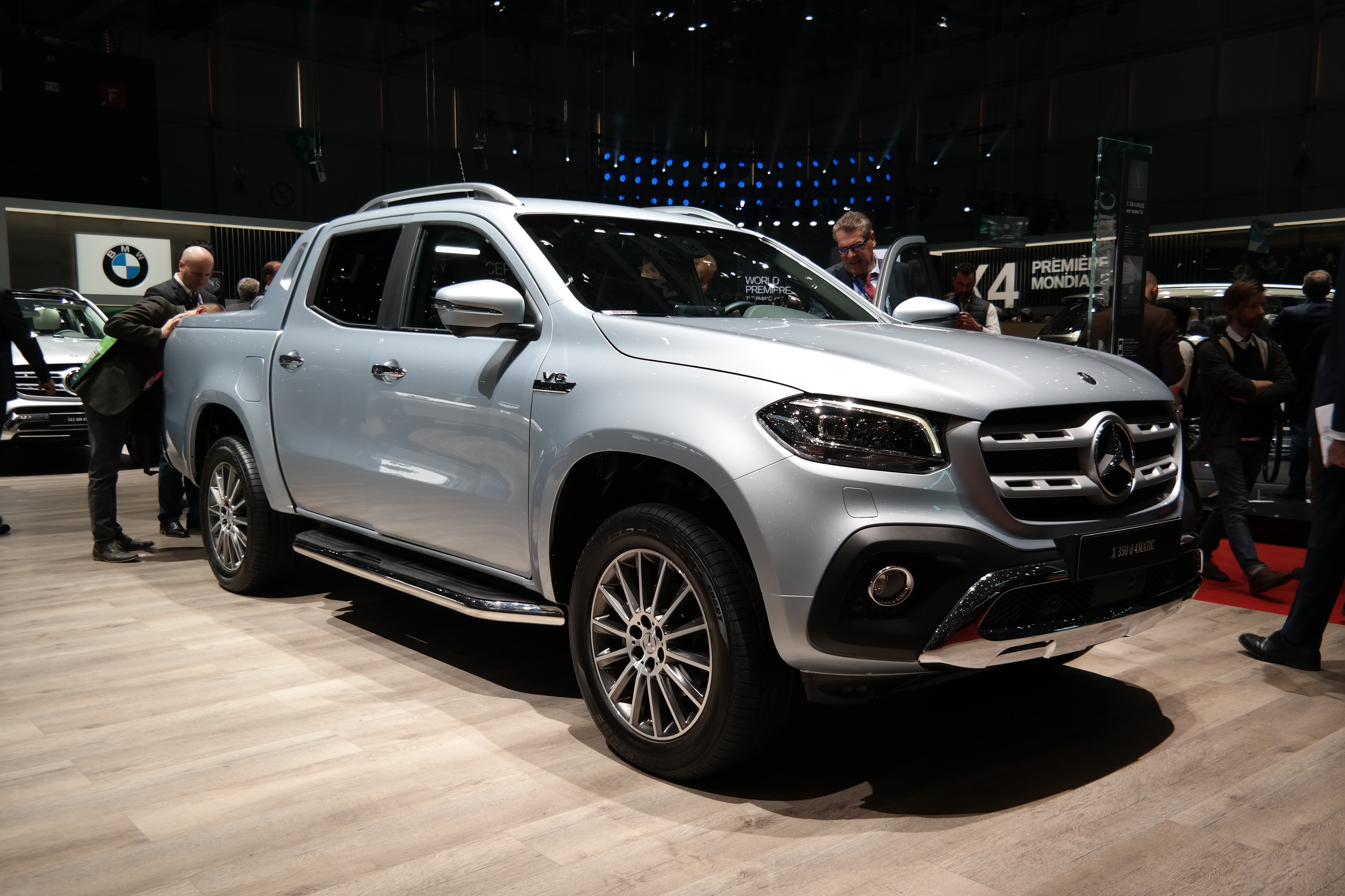 Geneva Motor Show 2018 (photo taken on the first press day)